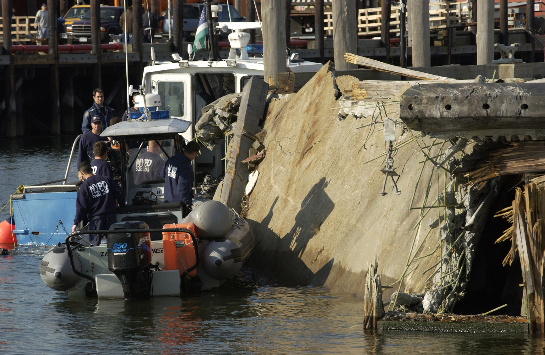 The damage to the the pier after the Staten Island Ferry Andrew J. Barberi crashed into the pier in New York City October 15, 2003.